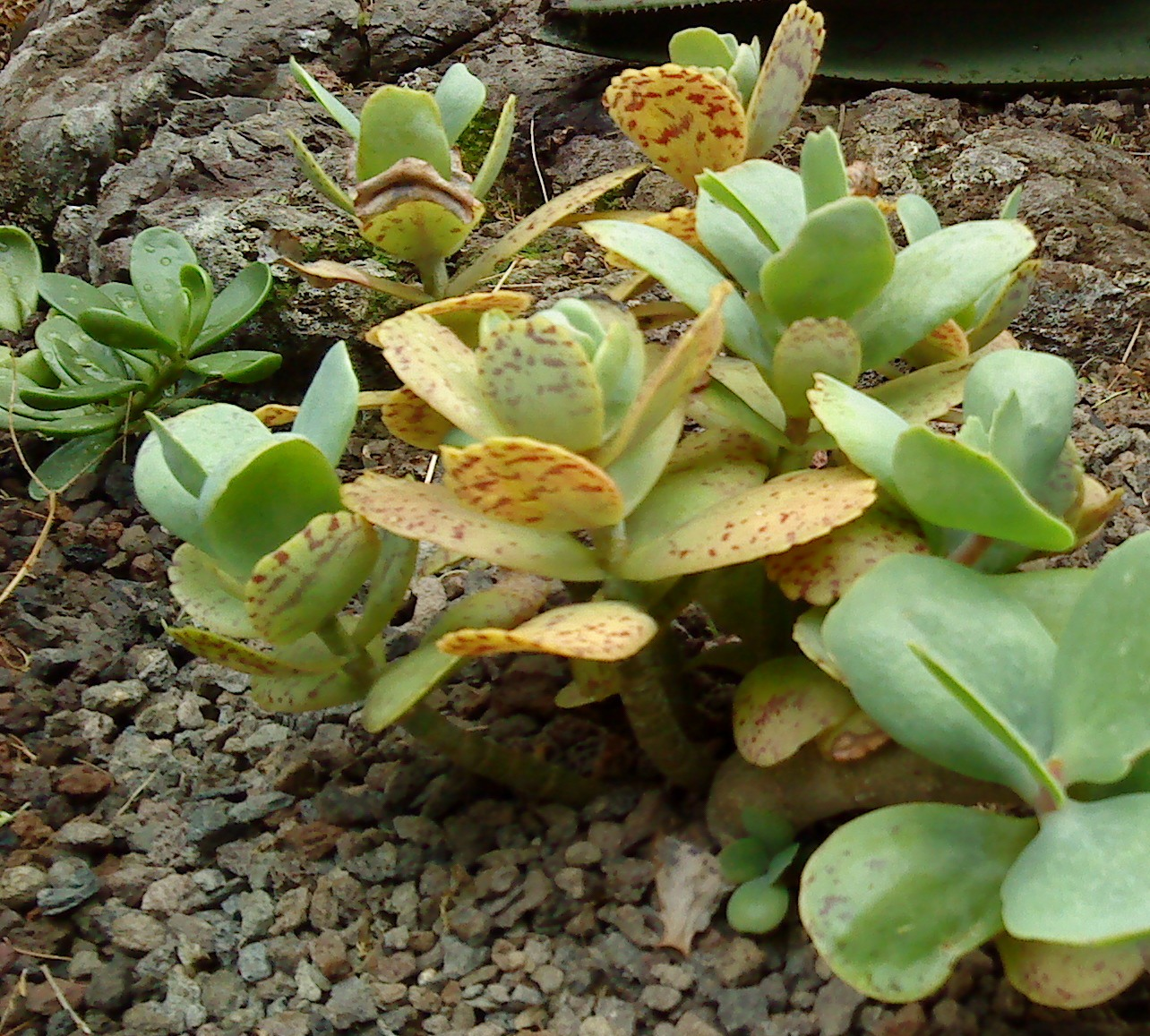 Penwiper (Kalanchoe marmorata)